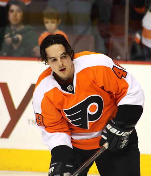 Danny Brière during pre-game warmup at the 3.12.2011 game vs. the Atlanta Thrashers.